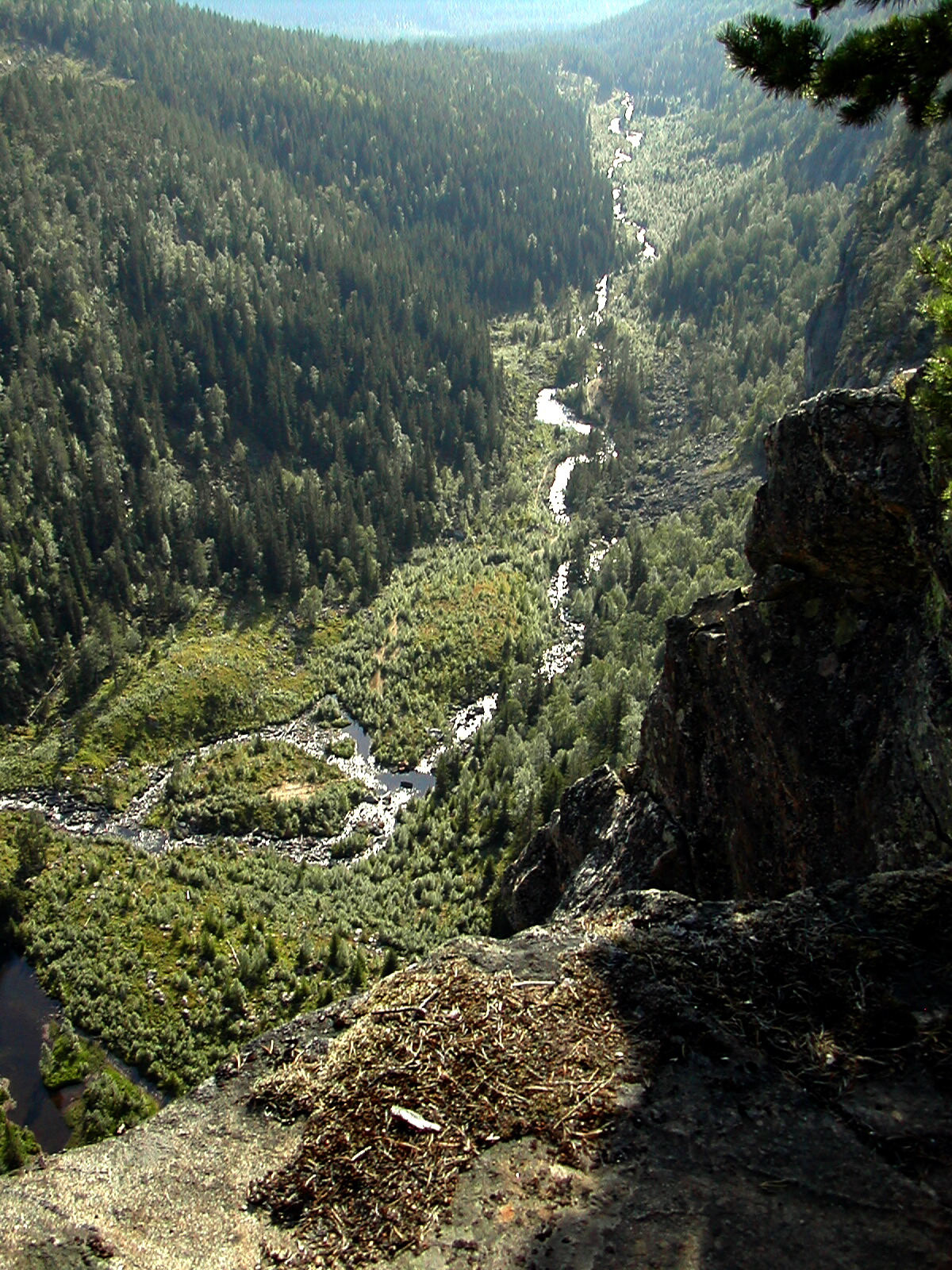 The canyon Veiåjuvet near highway 9, in the municipality of Valle, Aust-Agder, Norway. You can also see the river Veiåni. Picture is taken from north-east.